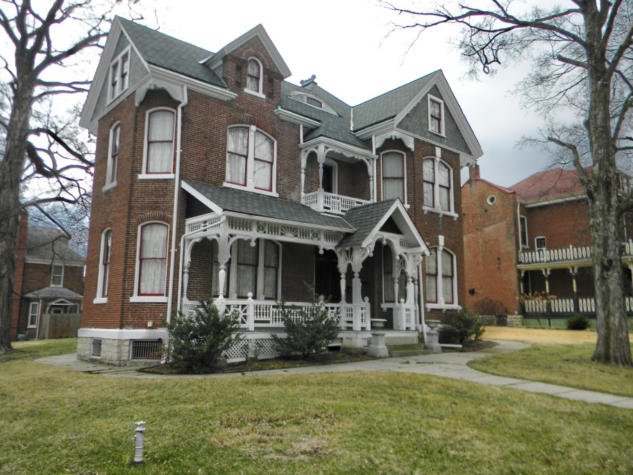 Henry C. Thias House